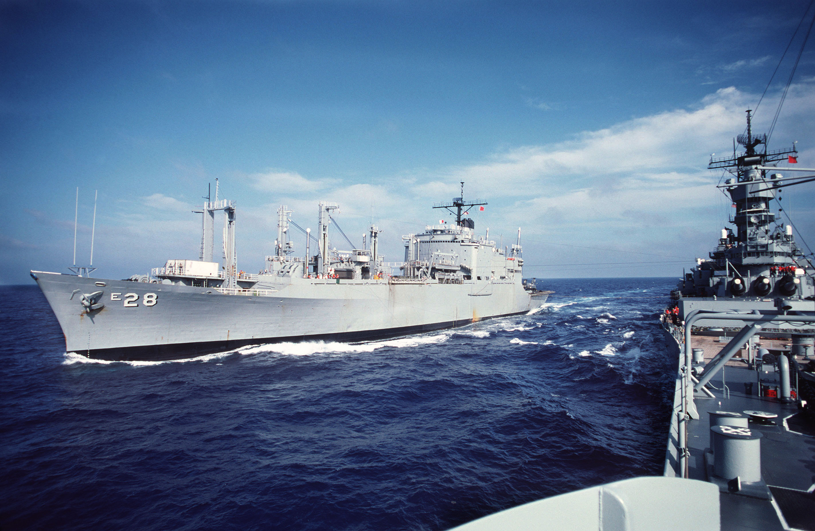 The U.S. Navy ammunition ship USS Santa Barbara (AE-28) provides ammunition for the battleship USS Iowa (BB-61) during an underway replenishment in the Atlantic Ocean on 1 August 1984.